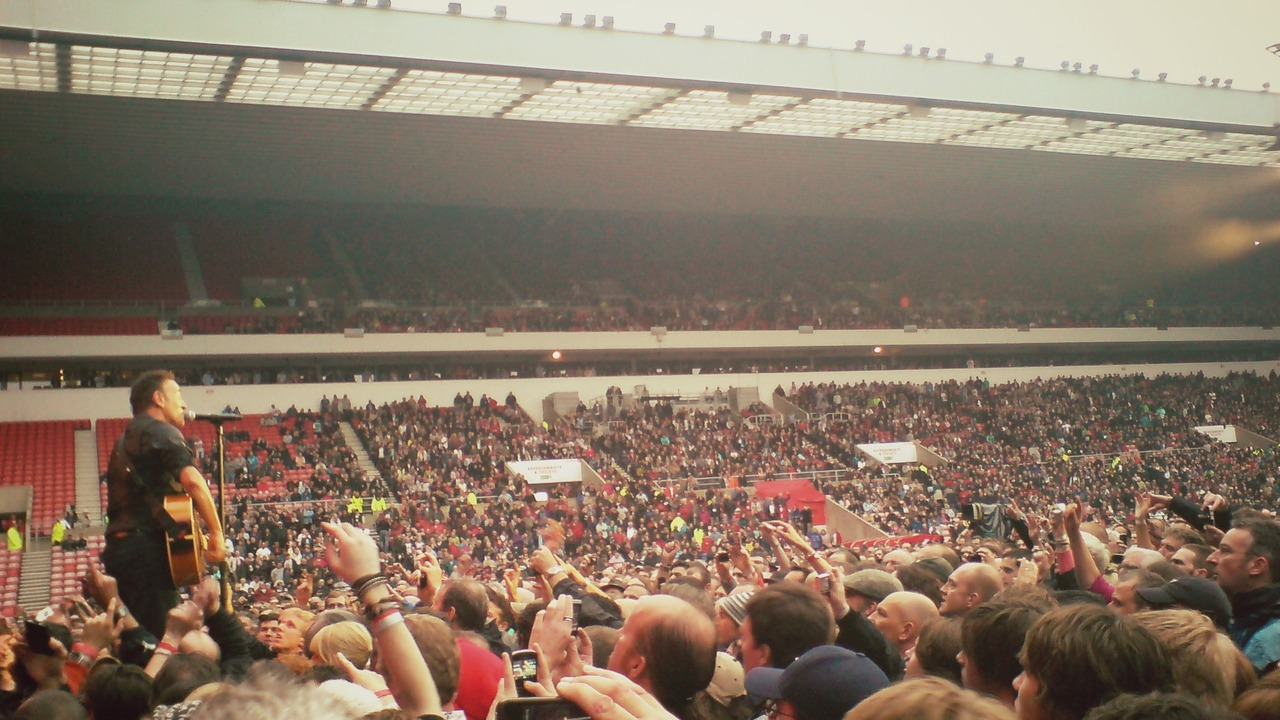 Bruce Springsteen performing "Shackled and Drawn" on jetty in front of stage at the Stadium of Light, Sunderland, UK, June 21, 2012. Wrecking Ball Tour.